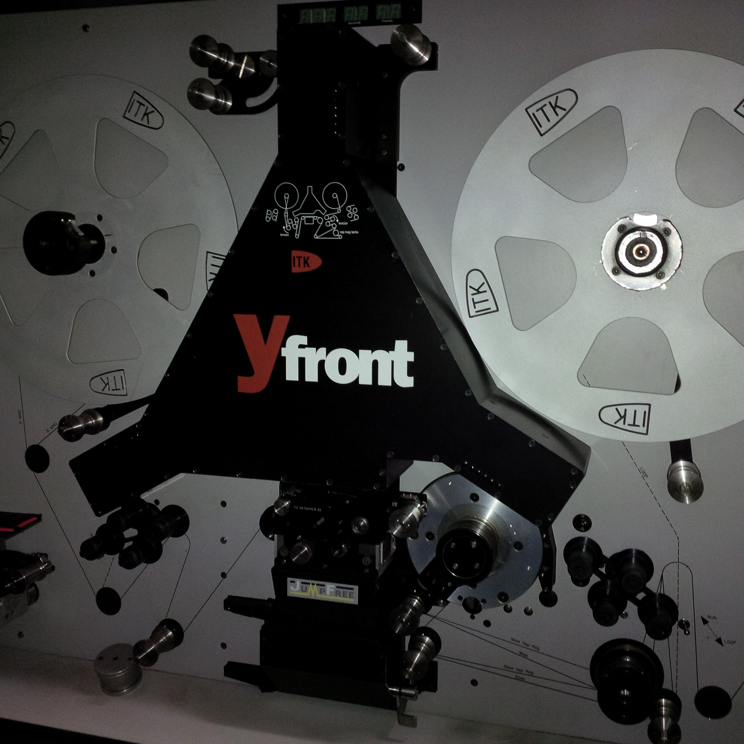 InnovationTK Y-Front